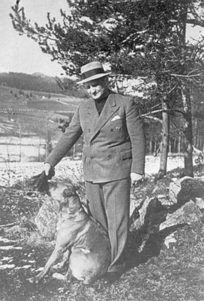 Kilian „Franz“ Nowotny (* December 1, 1905 Staré Hutě u Nové Hutě - March 12, 1977 Waldkirchen, West Germany) was a German smuggler, smuggler of people and agent of the American intelligence agency CIC (Counterintelligence Corps), originally from the South Bohemian village „Staré Hutě“. He illegally (many times) crossed the border between Bavaria and South Bohemia. On one of the few surviving photographs is he with his dog Alík in the 30s of the 20th century. The author of the photo is unknown.